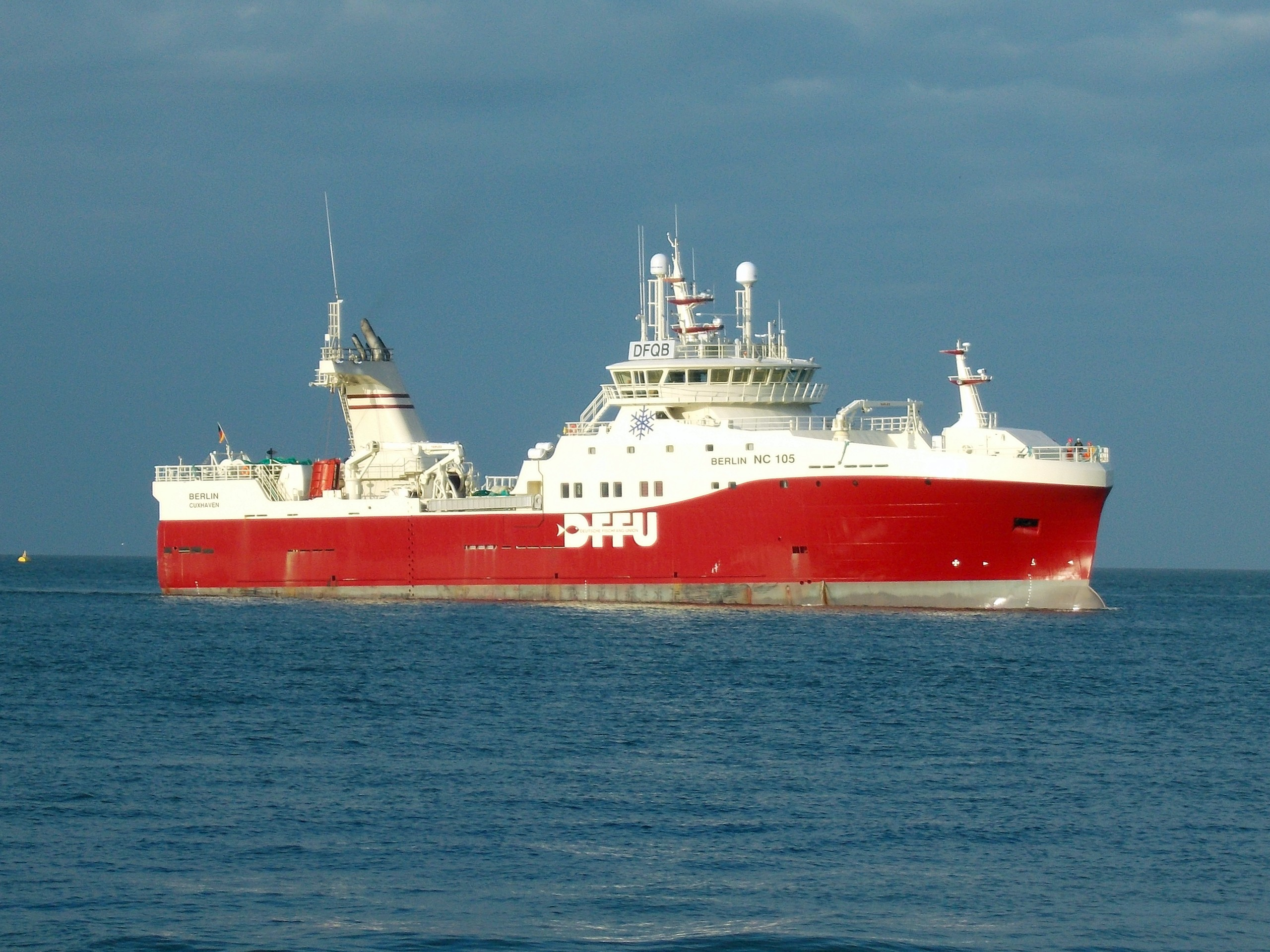 Arrival of the trawler Berlin at Cuxhaven, Germany